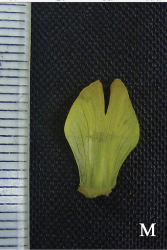 Amomum nilgiricum, labellum